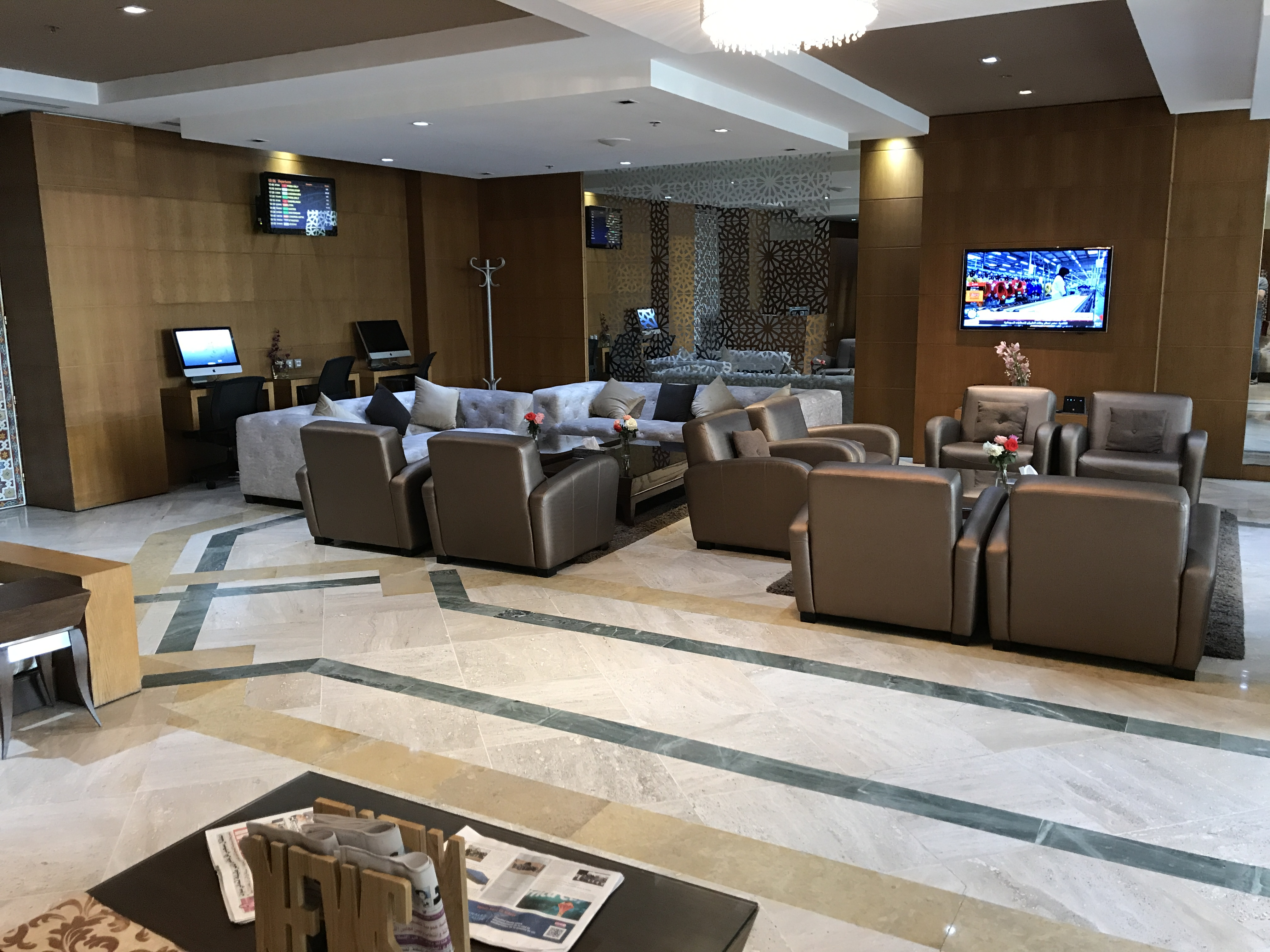 Lounge of domestic departures in Agadir Airport